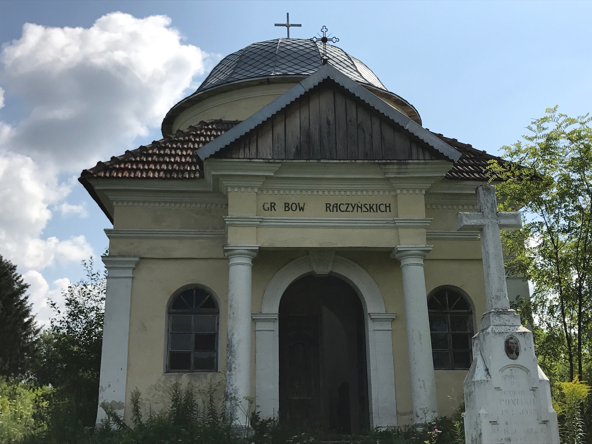 Chapel of Rachinsky at The Zawalov cemetary